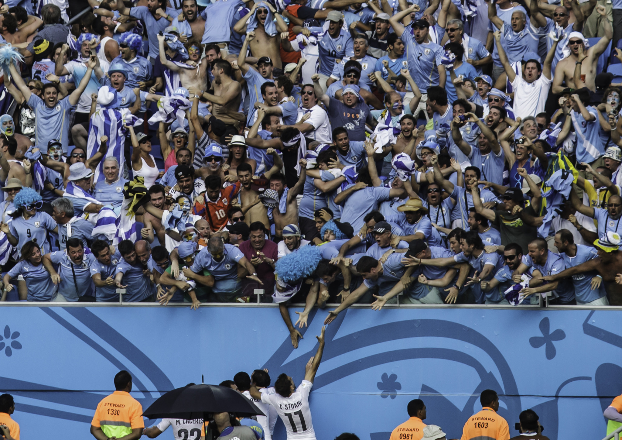 Italy and Uruguay match at the FIFA World Cup 2014-06-24, Arena das Dunas, Natal, Brazil.